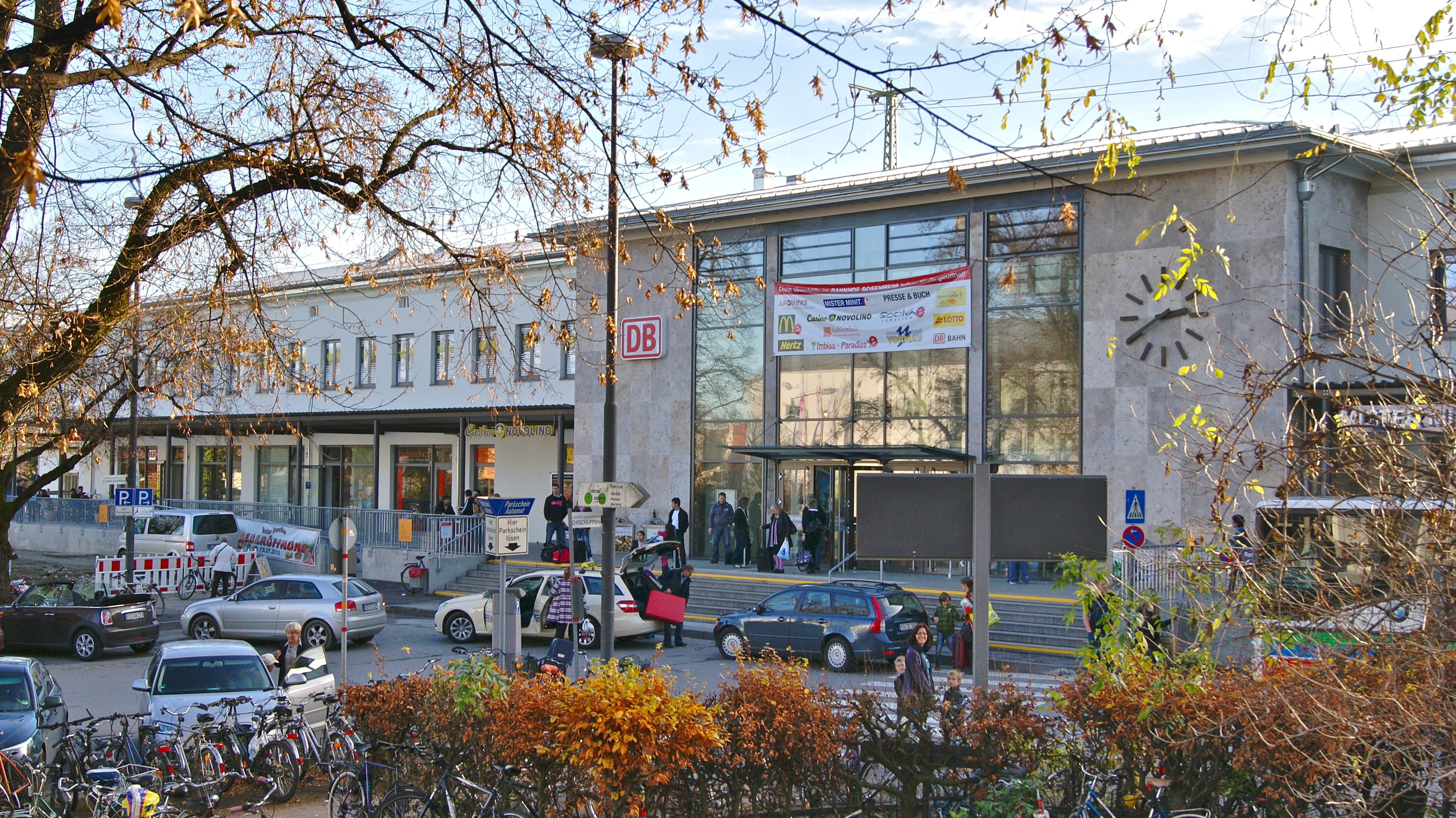 Rosenheim Train Station 2010